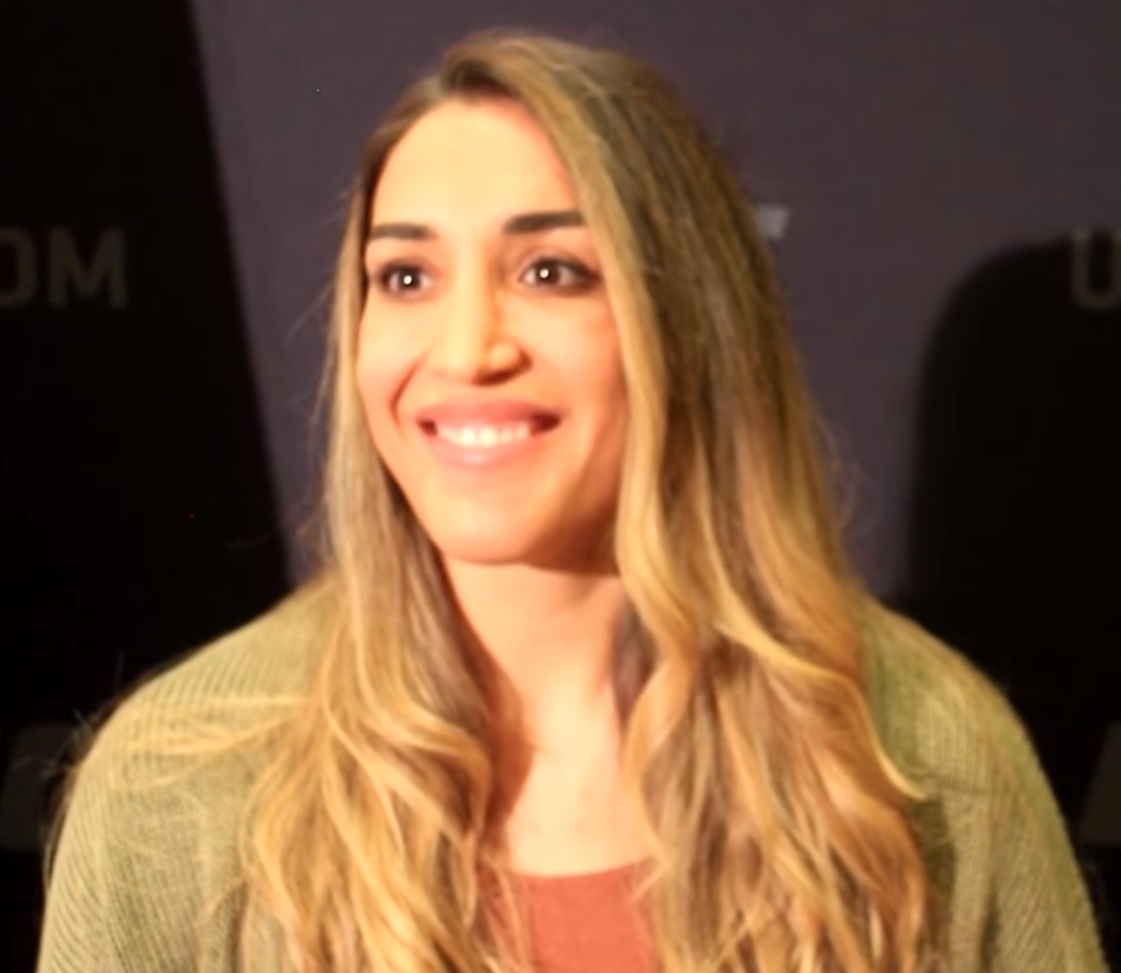 Tatiana Suarez UFC 228 Pre-Fight Interview American mixed martial artist Tatiana Suarez interviewed at Ultimate Fighting Championship 228. UFC #MMA #UFC228 Visit Europe's biggest MMA website Follow us on our Social Media channels: Facebook: Instagram: Twitter